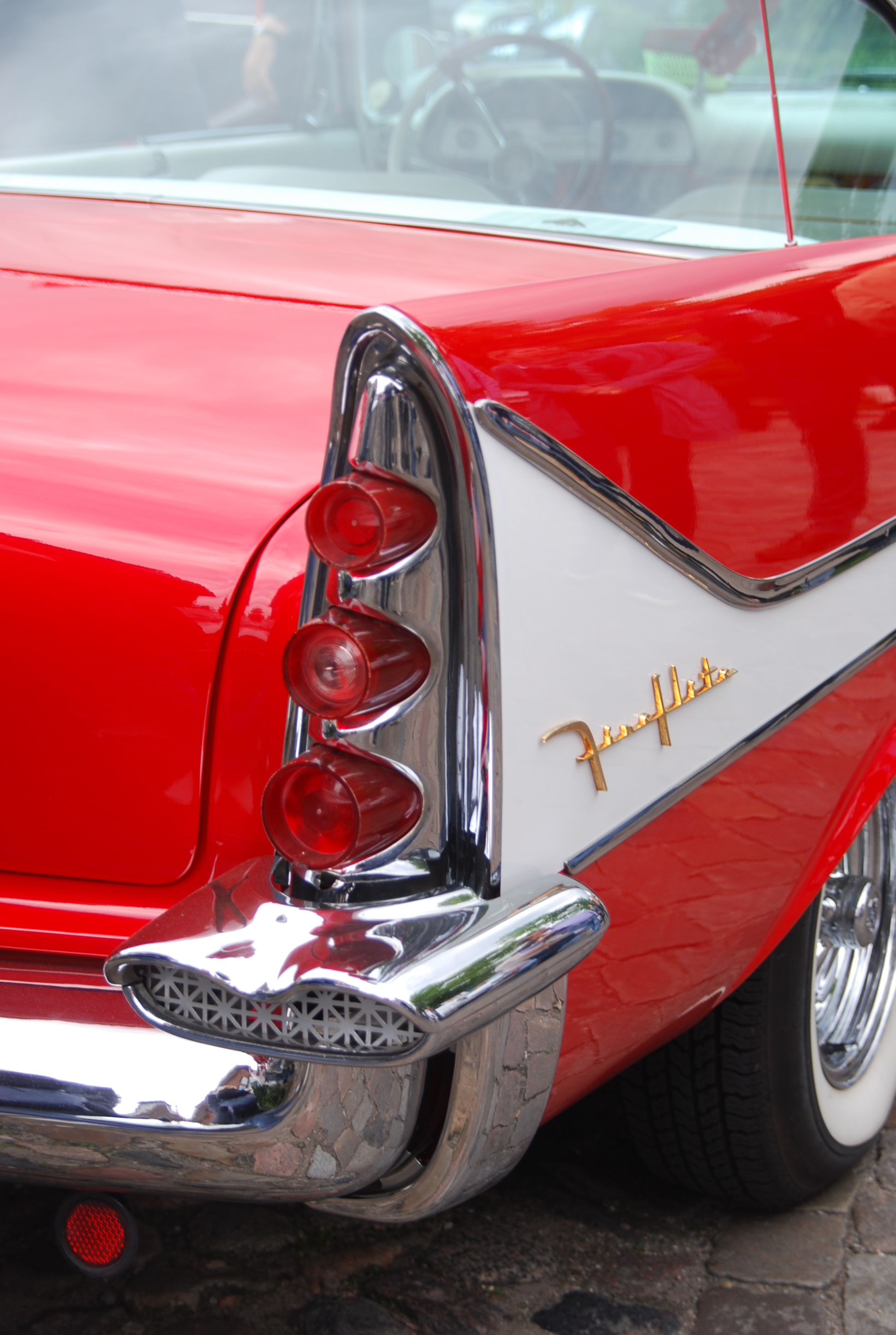 1958 DeSoto Fireflite